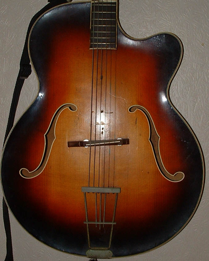 Archtop guitar - make unknown - body